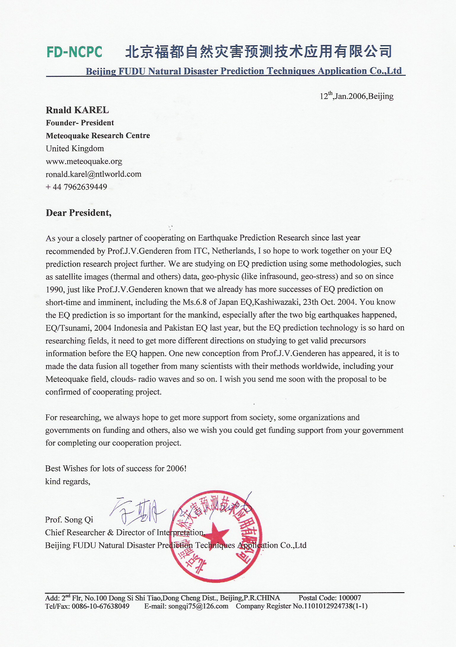 Support letter from Beijing FUDU Natural Disaster Prediction Techniques Application Co.,Ltd.